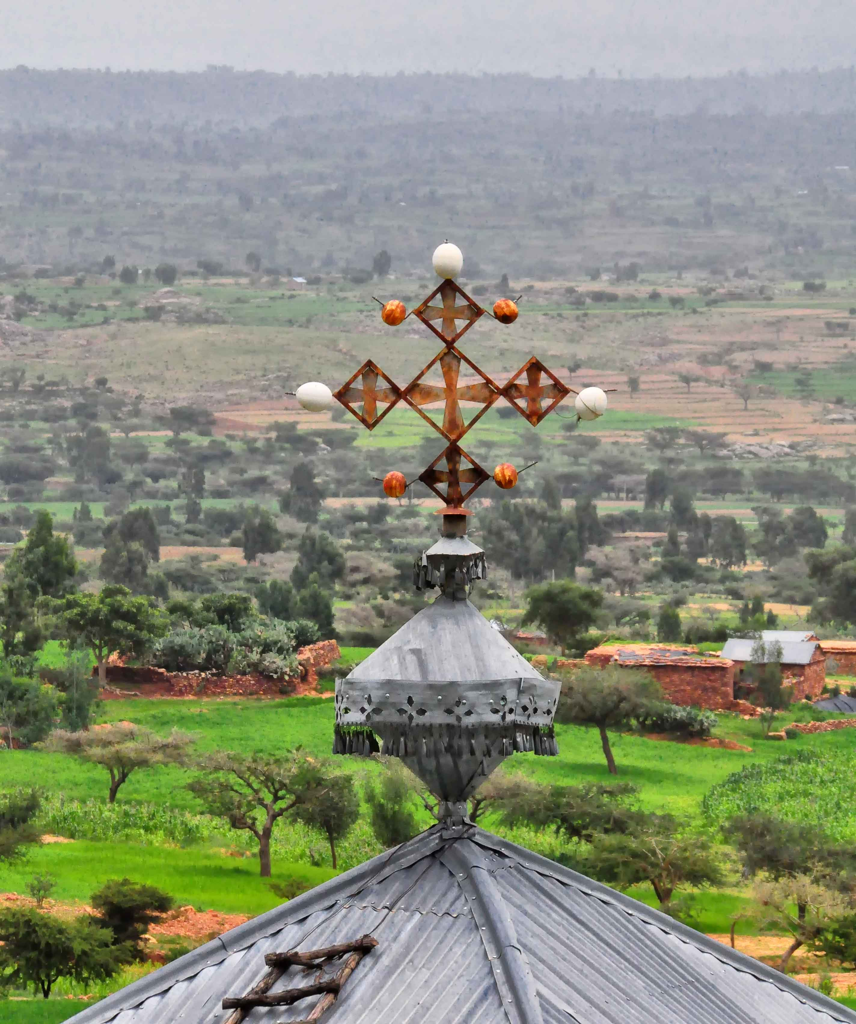 Church Roof, Gheralta